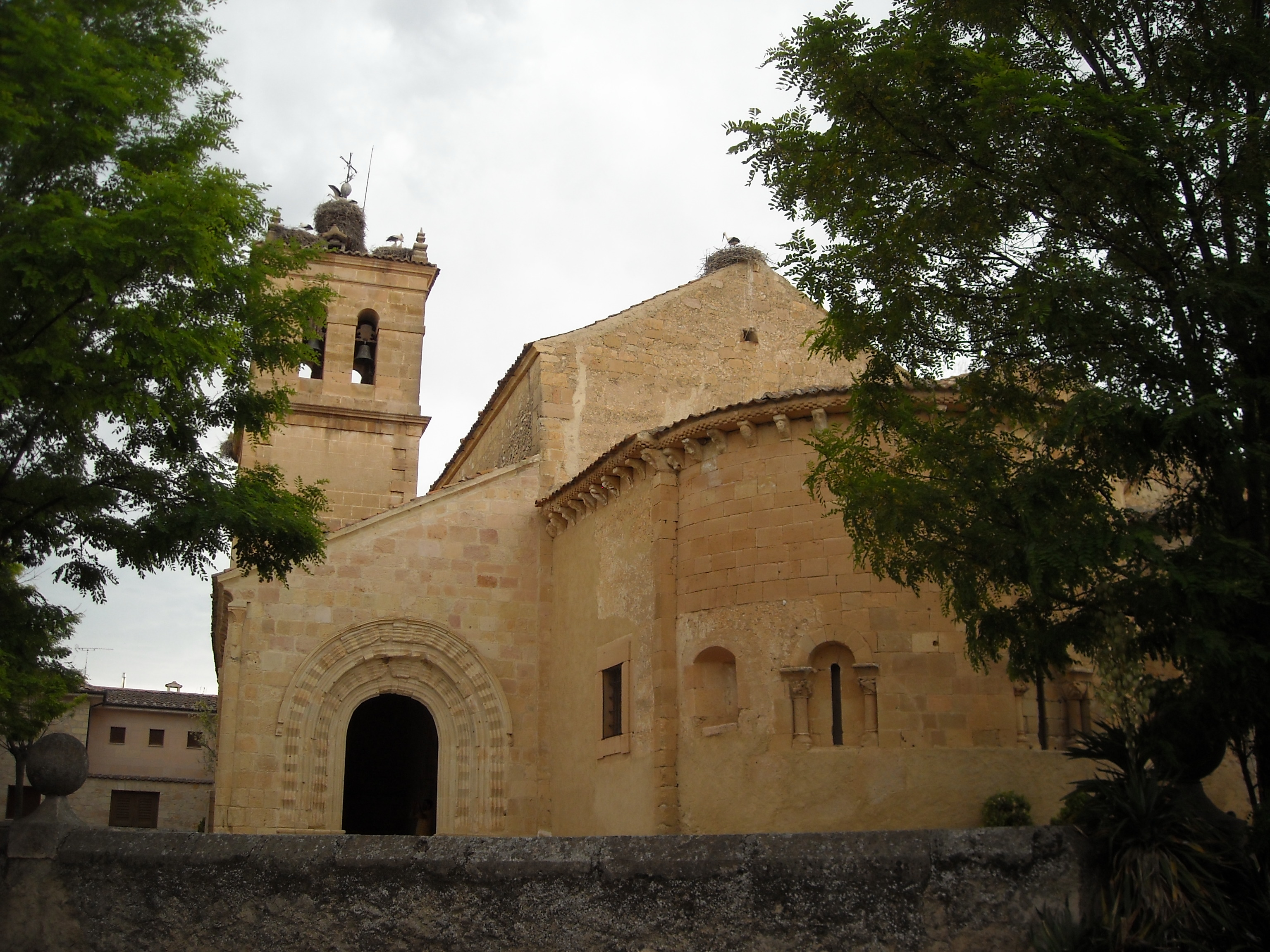 Church of St. Peter, San Pedro de Gaíllos, Segovia, Spain